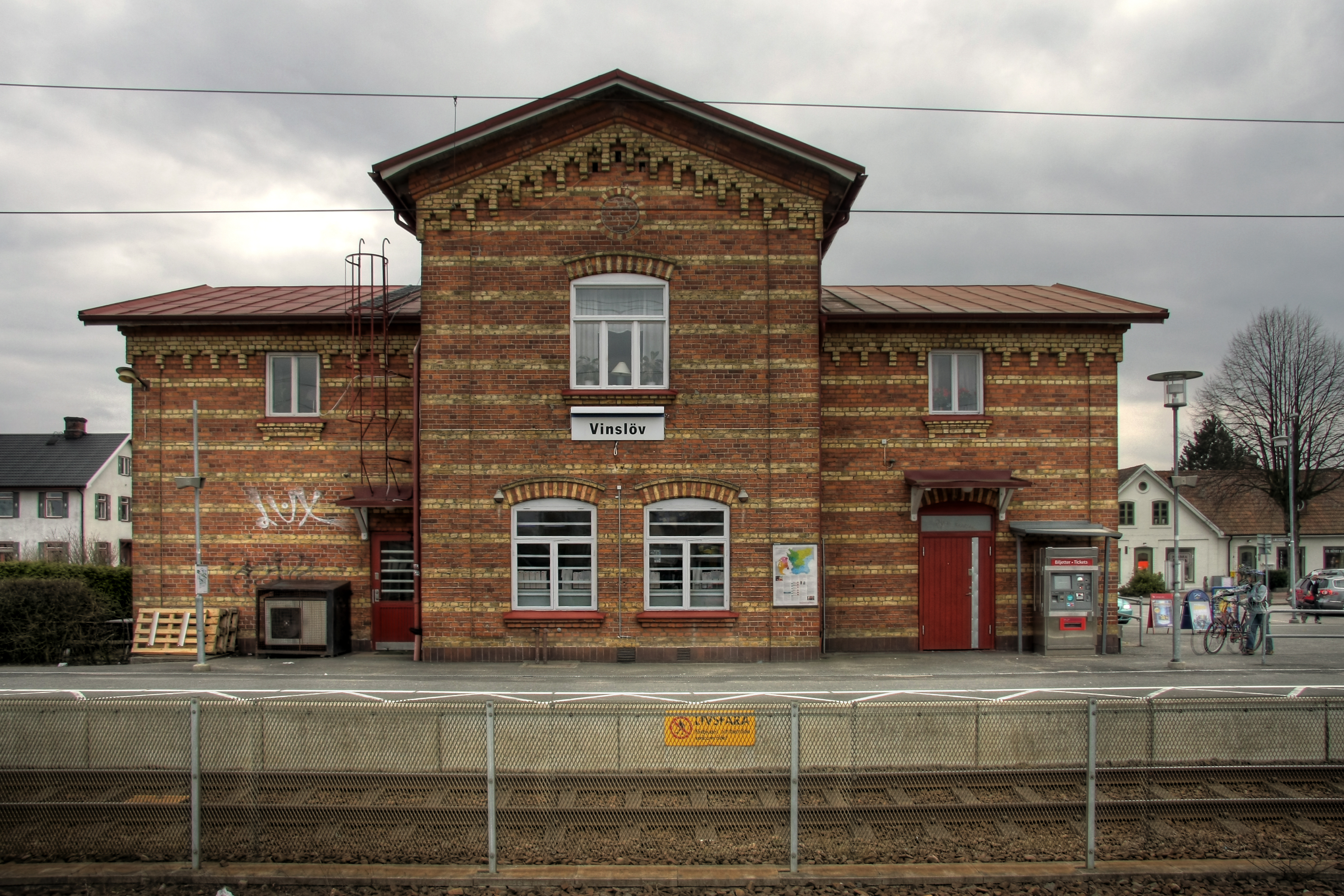 Vinslöv railway station in the north-eastern part of Scania, Sweden. Placed at the railway line Hässleholm–Kristianstad.